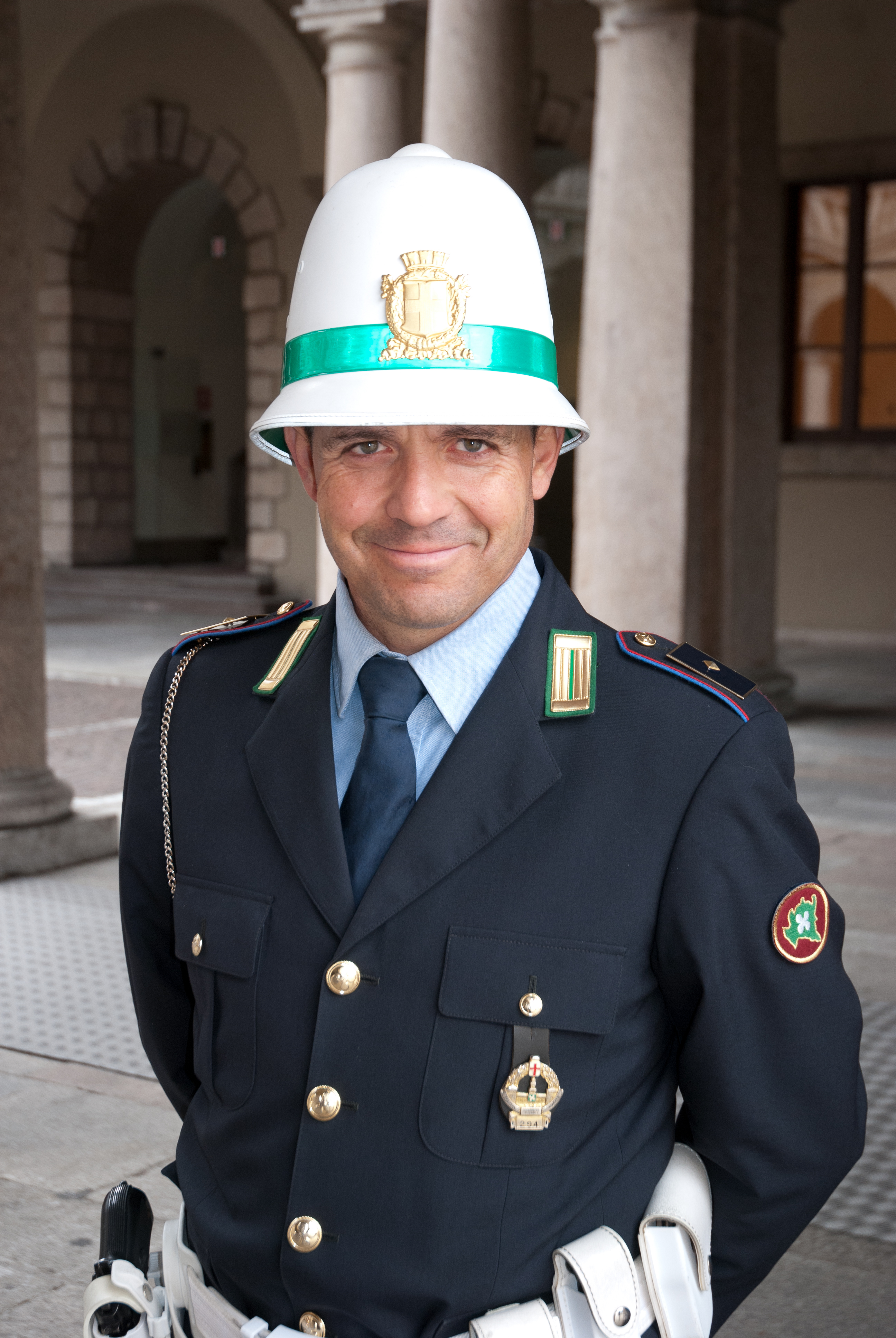 A Milan local policeman in 2010